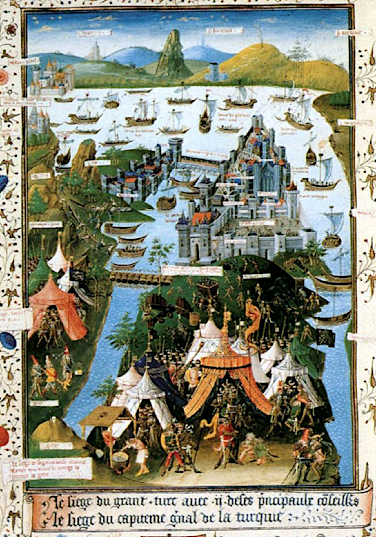 Siege of Constantinople from Bibliothèque nationale manuscript Français 9087 (folio 207 v). The Turkish army of Mehmet II attacks Constantinople in 1453. Some soldiers are pointing canons to the city and others are pulling boats to the Golden Horn. The city looks like quite gothic.